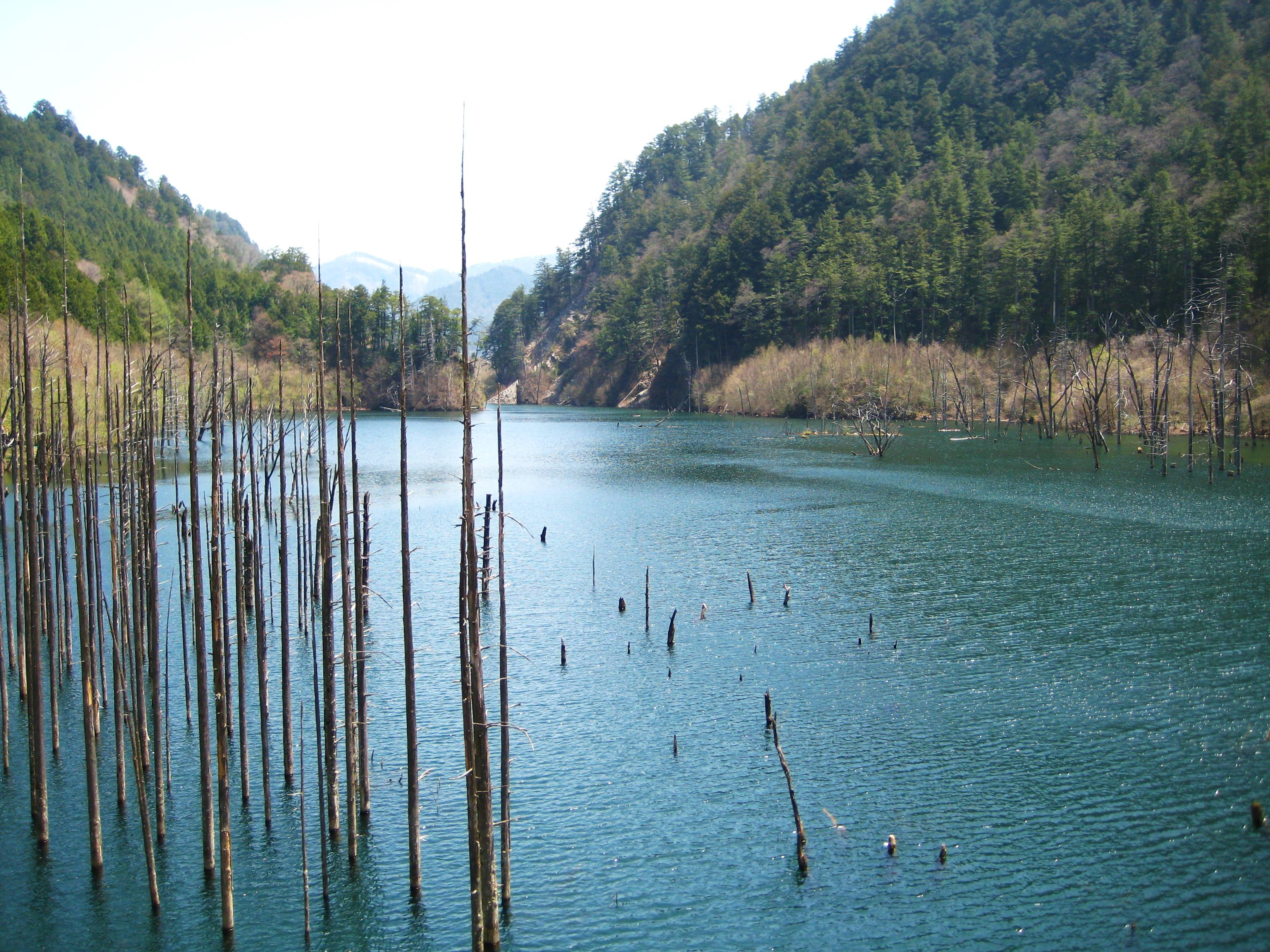 Lake Shizenko.